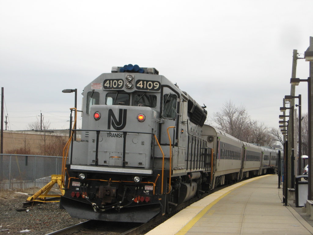 NJ Transit #4109 pushes Train 1628 out of the Essex Street Station en route to Hoboken.